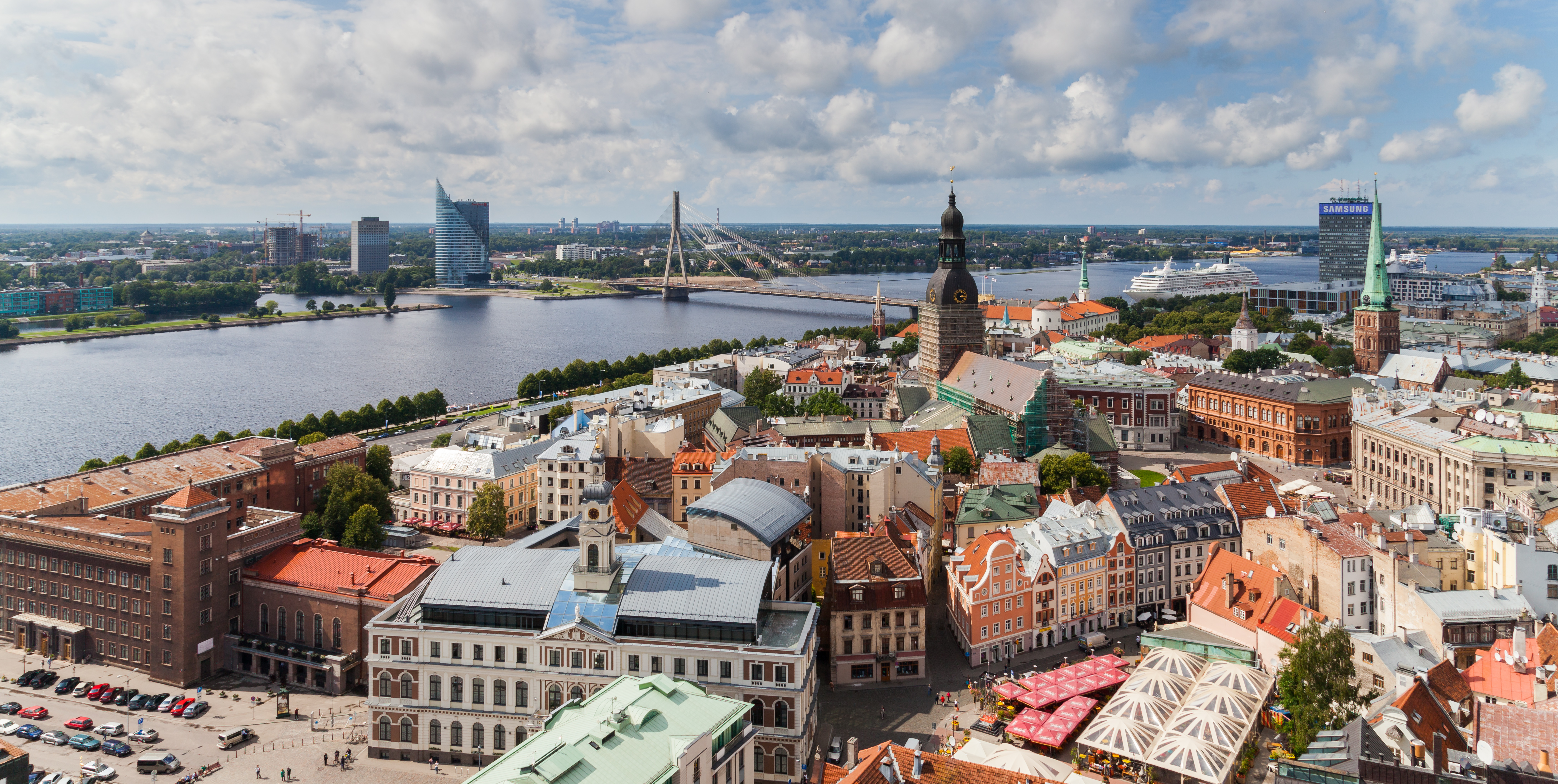 View of Riga from St. Peter's church, Latvia